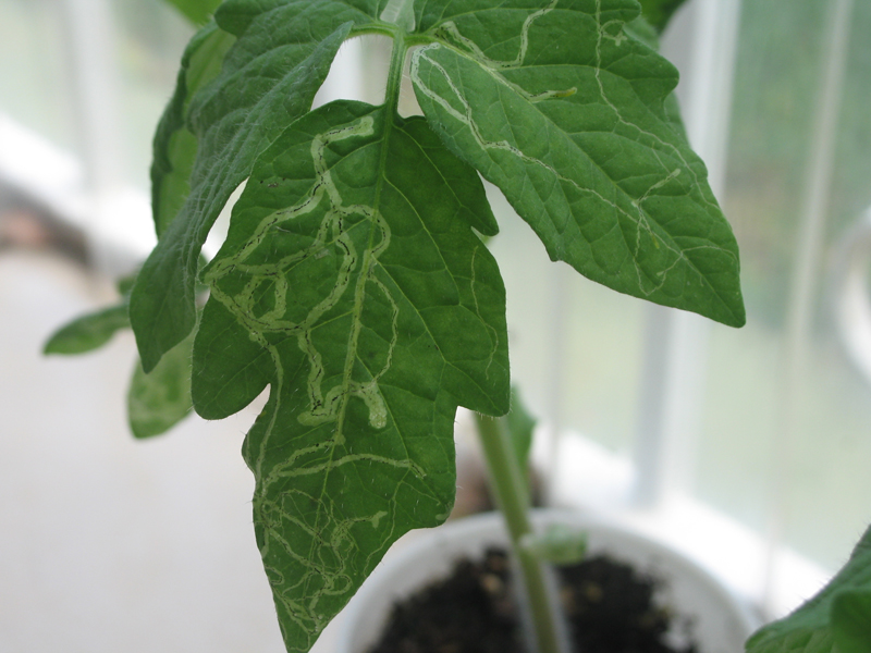 Leaf miner on young tomato plant